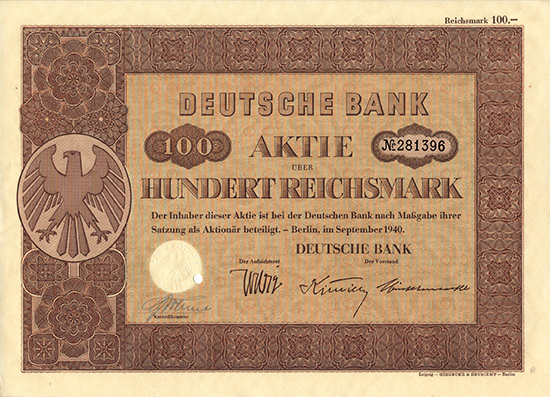 Share of Deutsche Bank from 1940